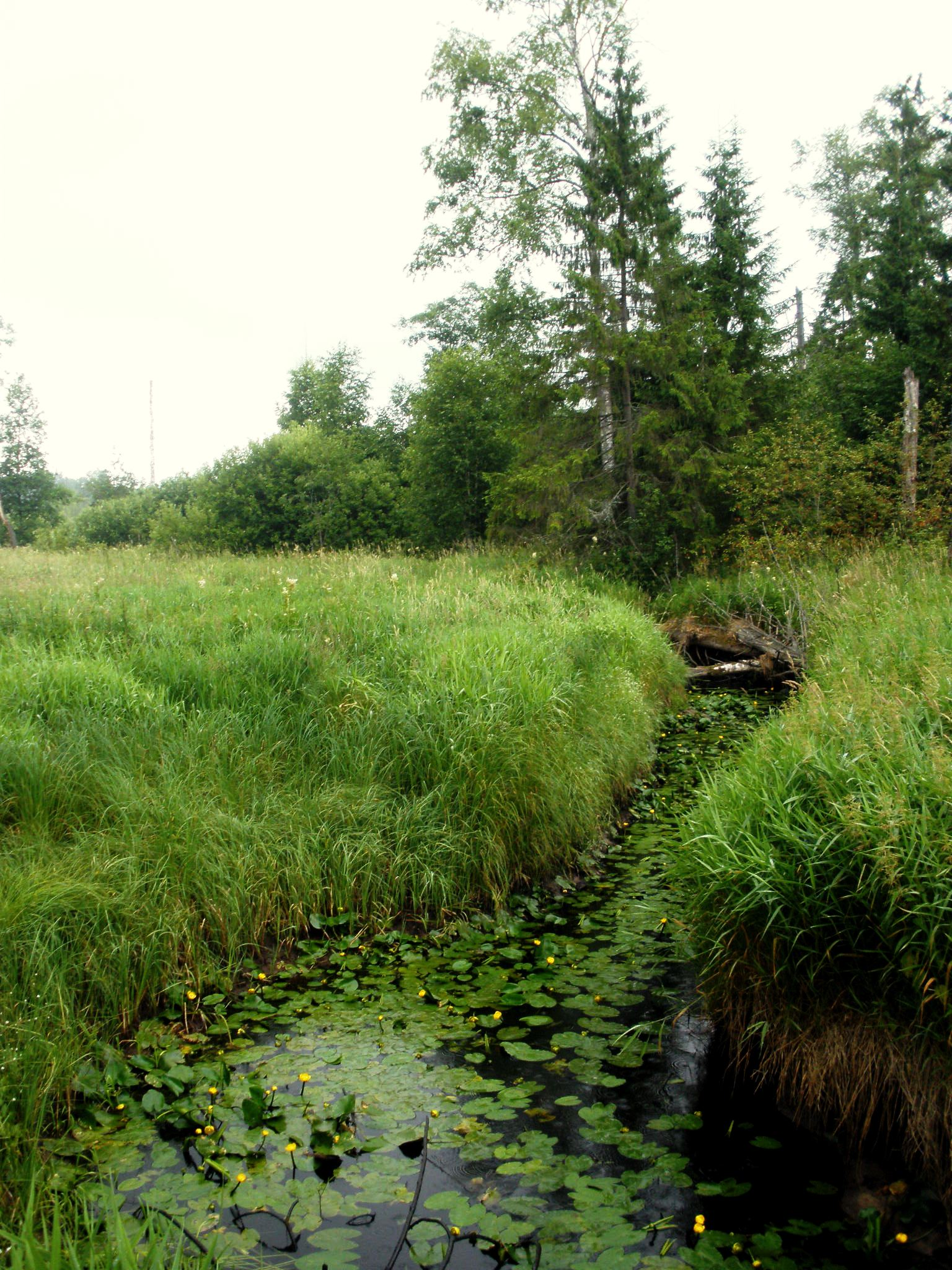 Mezha River, Central Forest reserve, Russia